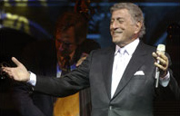 Tony Bennett performing at a Library of Congress gala event in honor of John W. Kluge.